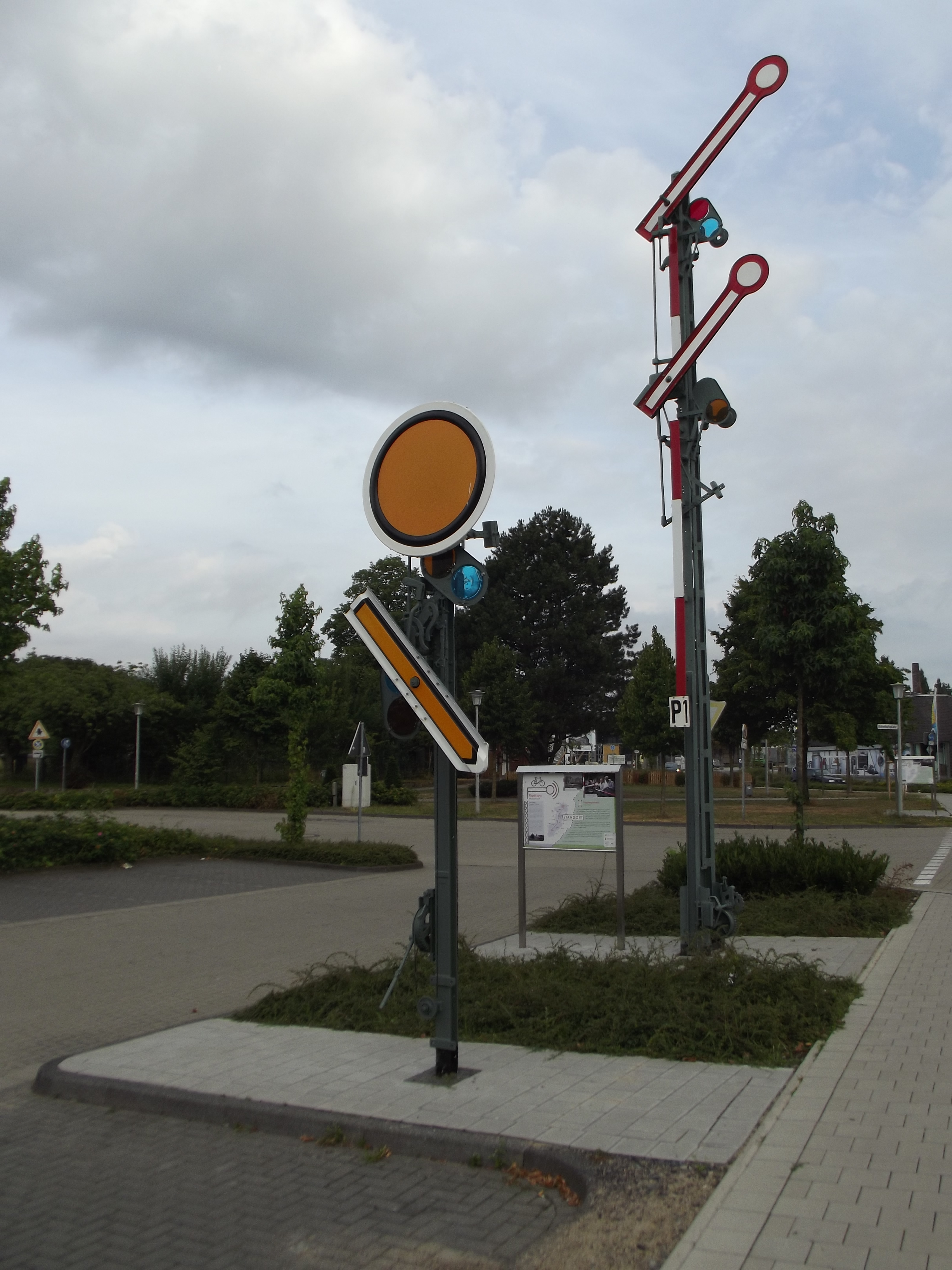 This pic shows a permanent exhibition at the railway station of Steinfurt-Burgsteinfurt.